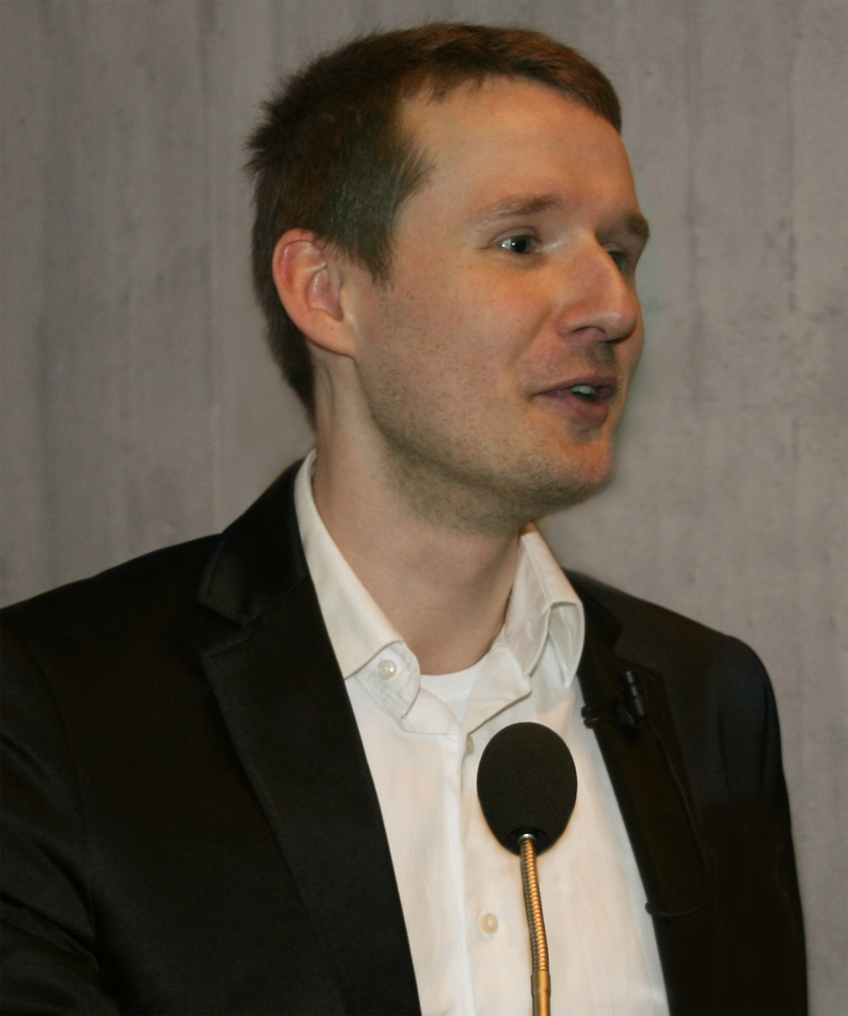 Malte Mienert (* 1975 in Görlitz)